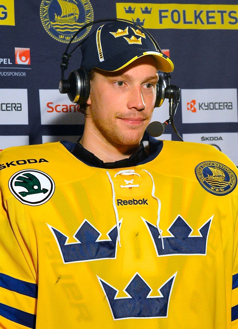 Anders Nilsson during Oddset Hockey Games against Russia (2-0) at the Ericsson Globe in Stockholm on May 4th, 2014.